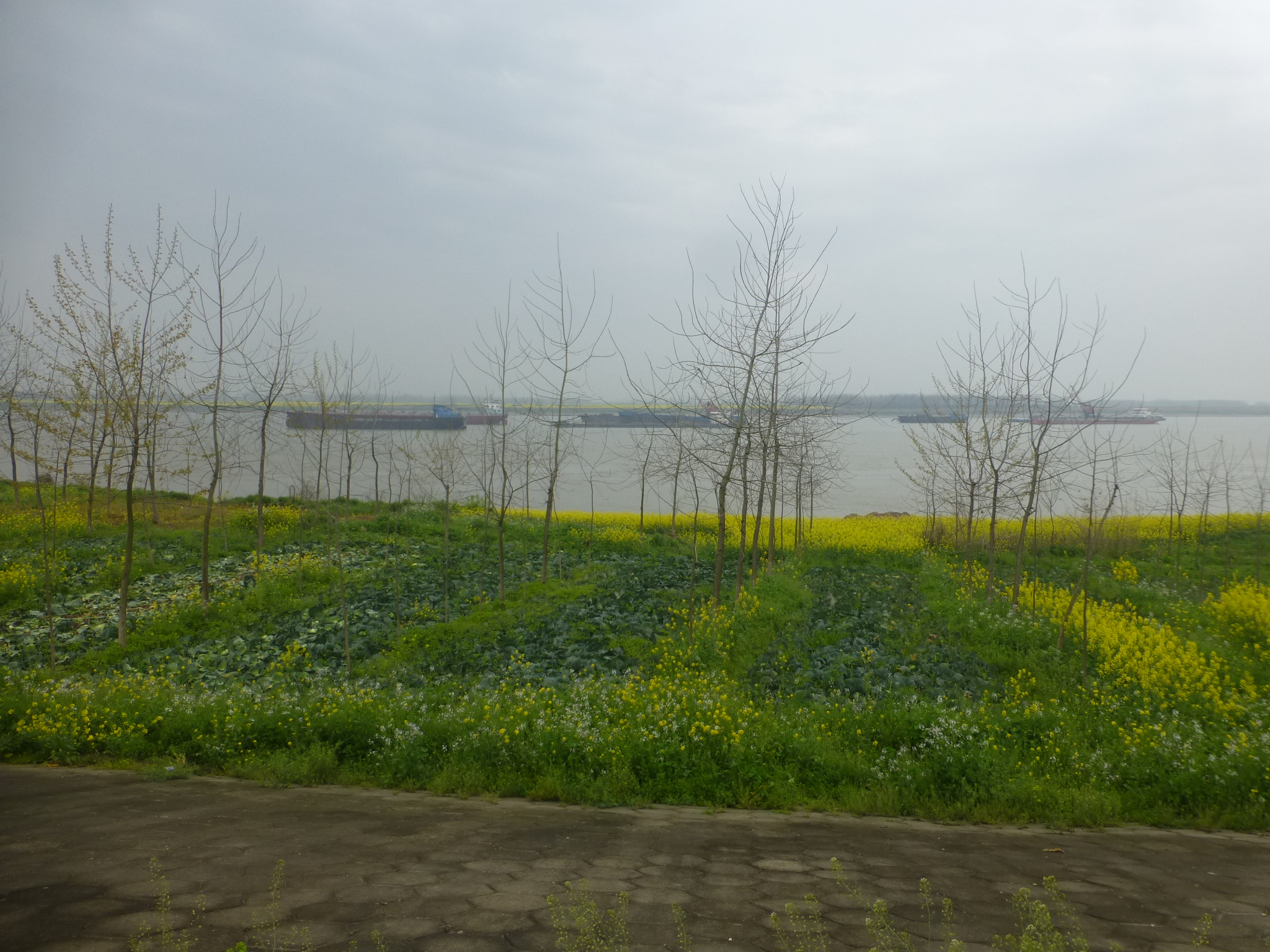 A view from the embankment on the right bank of the Yangtze near Panjiawan Town, Jiayu County, Hubei